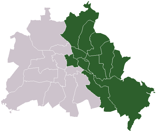 Berlin, Germany – divided – Berlin (East), blank (for e.g. location maps and other uses) NOTE: Same as Russian zone after WWII. For district names